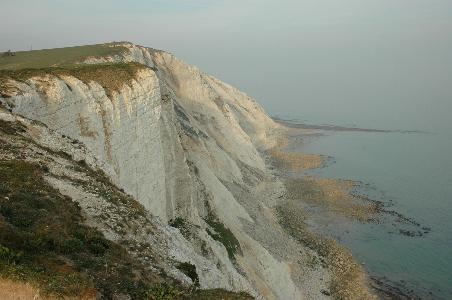 Beachy Head